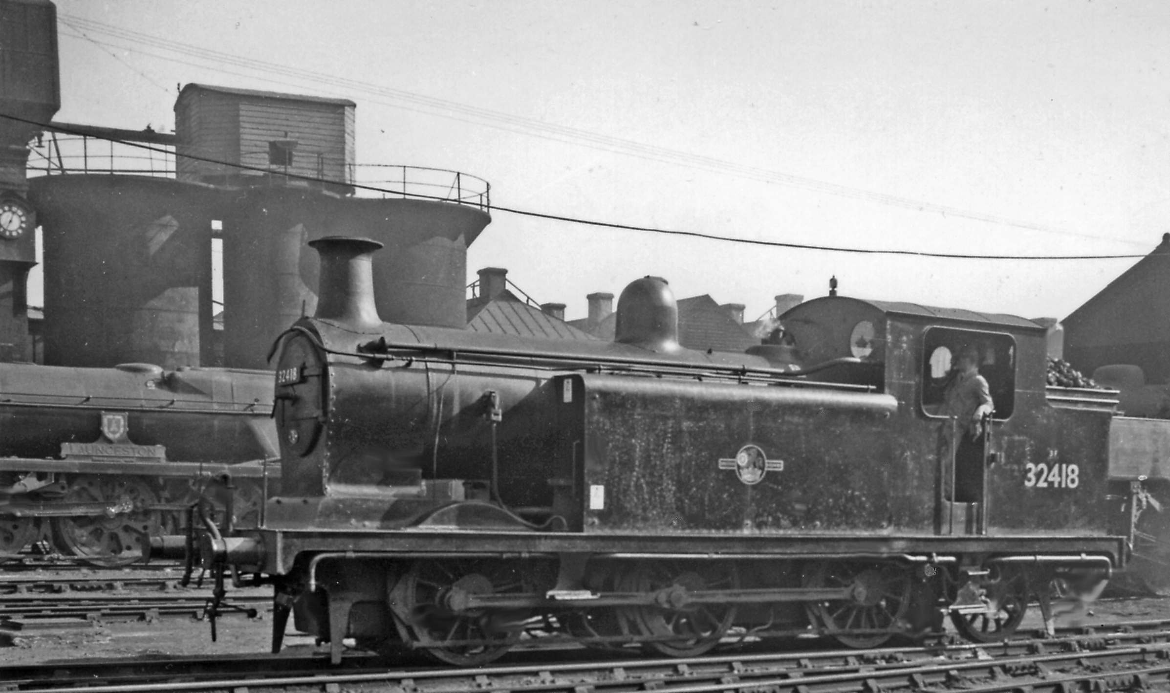 Ex-LB&SCR 0-6-2T at Brighton Locomotive Depot. Two ex-LB&SC tank engines worked the RCTS Sussex Rail Tour from Brighton to Seaford and back (see TQ4401 : Ex-LB&SC A1X 0-6-0T at Newhaven Locomotive Depot and other scenes). The larger of the duo - only to be withdrawn two months after its efforts - was R. Billinton E6 class 0-6-2T No. 32418 (built 12/1905, withdrawn 12/62).